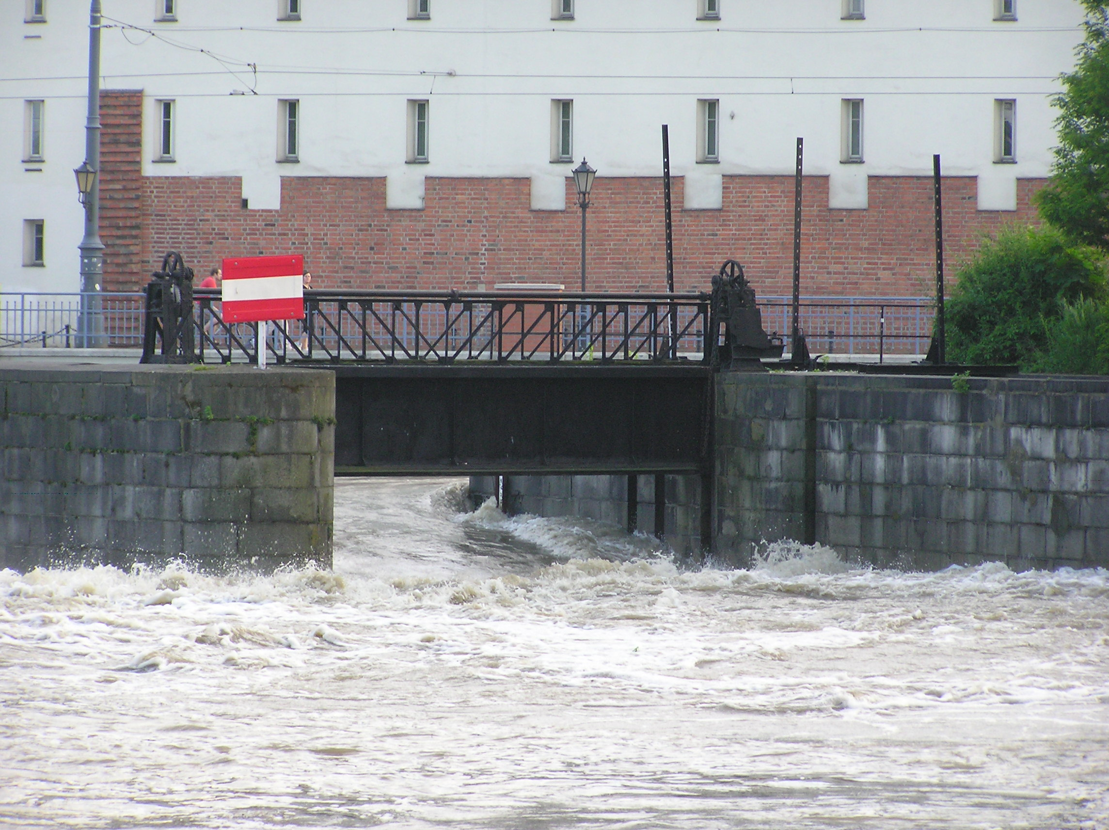 Św. Macieja weir